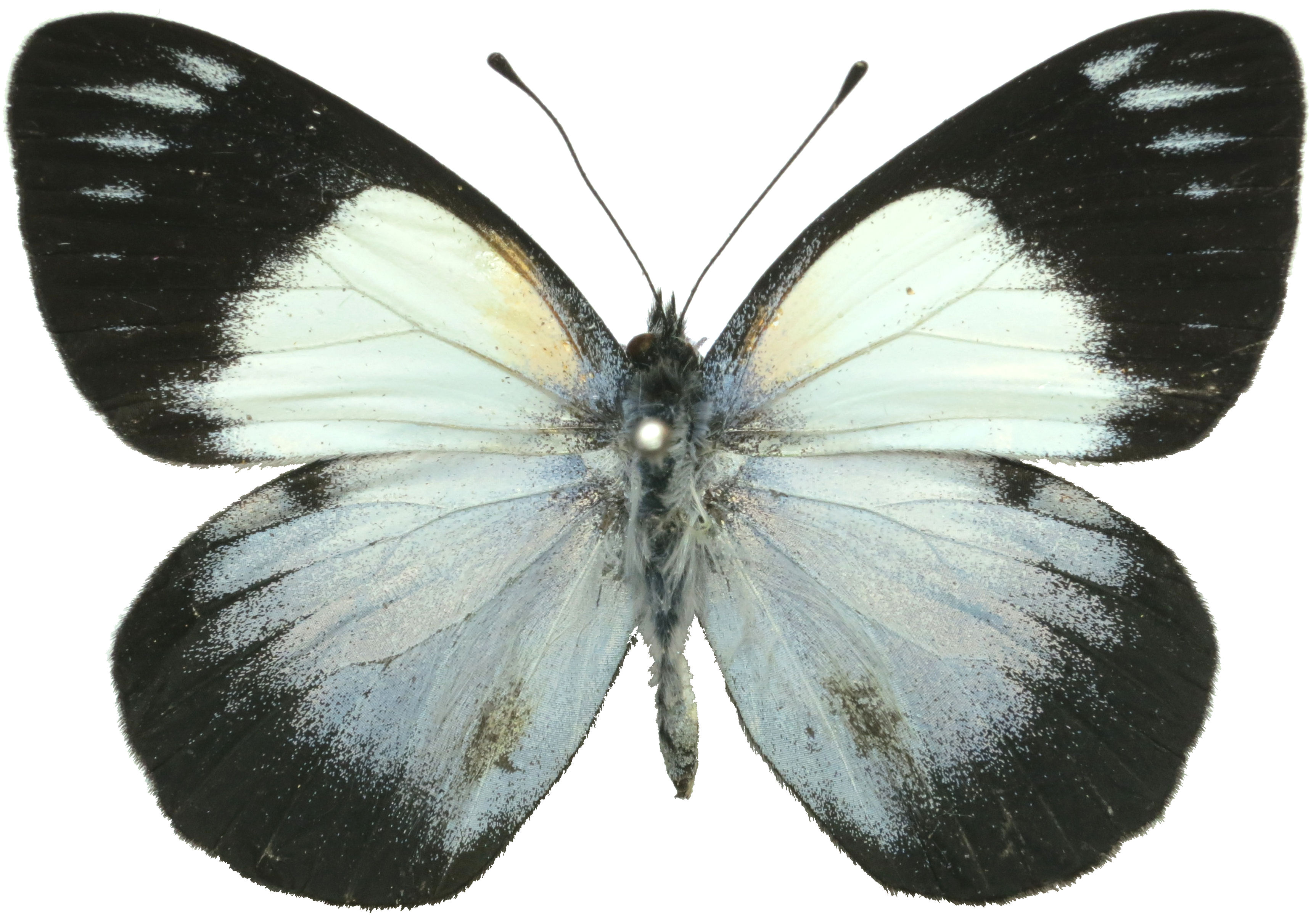 Belenois margaritacea kenyensis Chawia Teita, Kenya June 2018